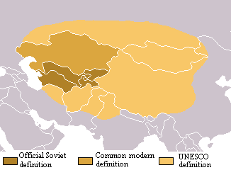 Central Asia with borders